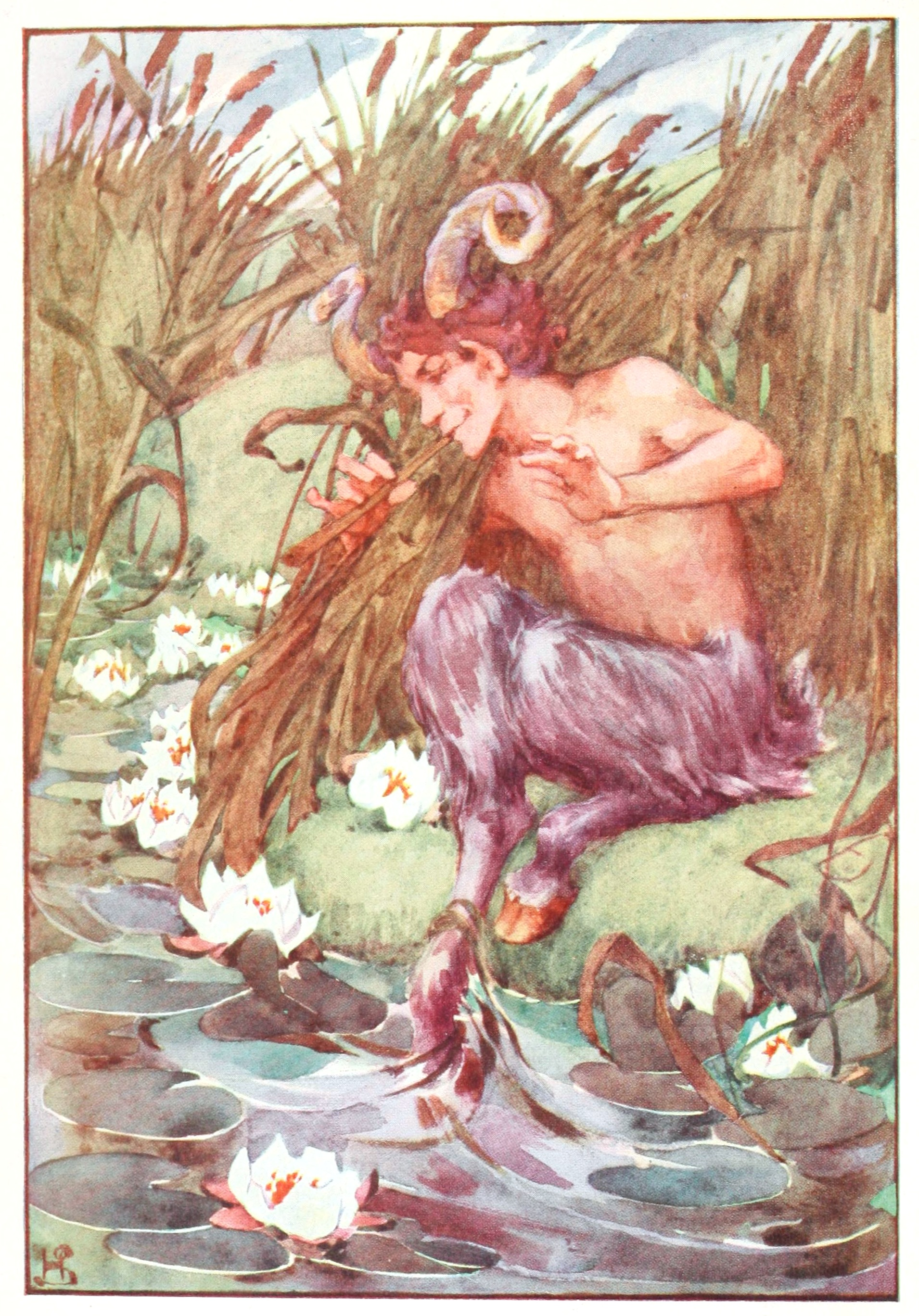 Illustration from a collection of myths.